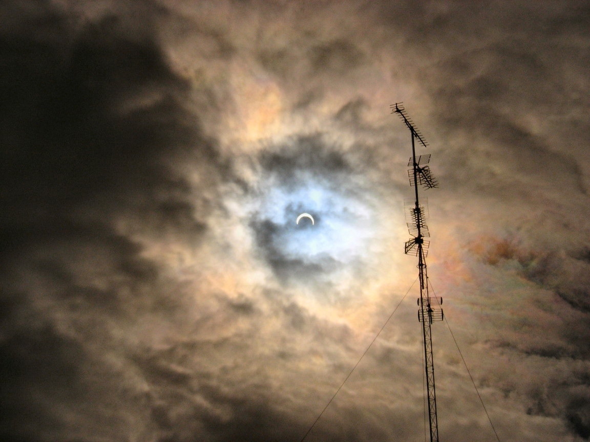 Photo taken by Mario Ramírez Ferrero during the October 3 2005 annular eclipse in Valladolid (Spain).